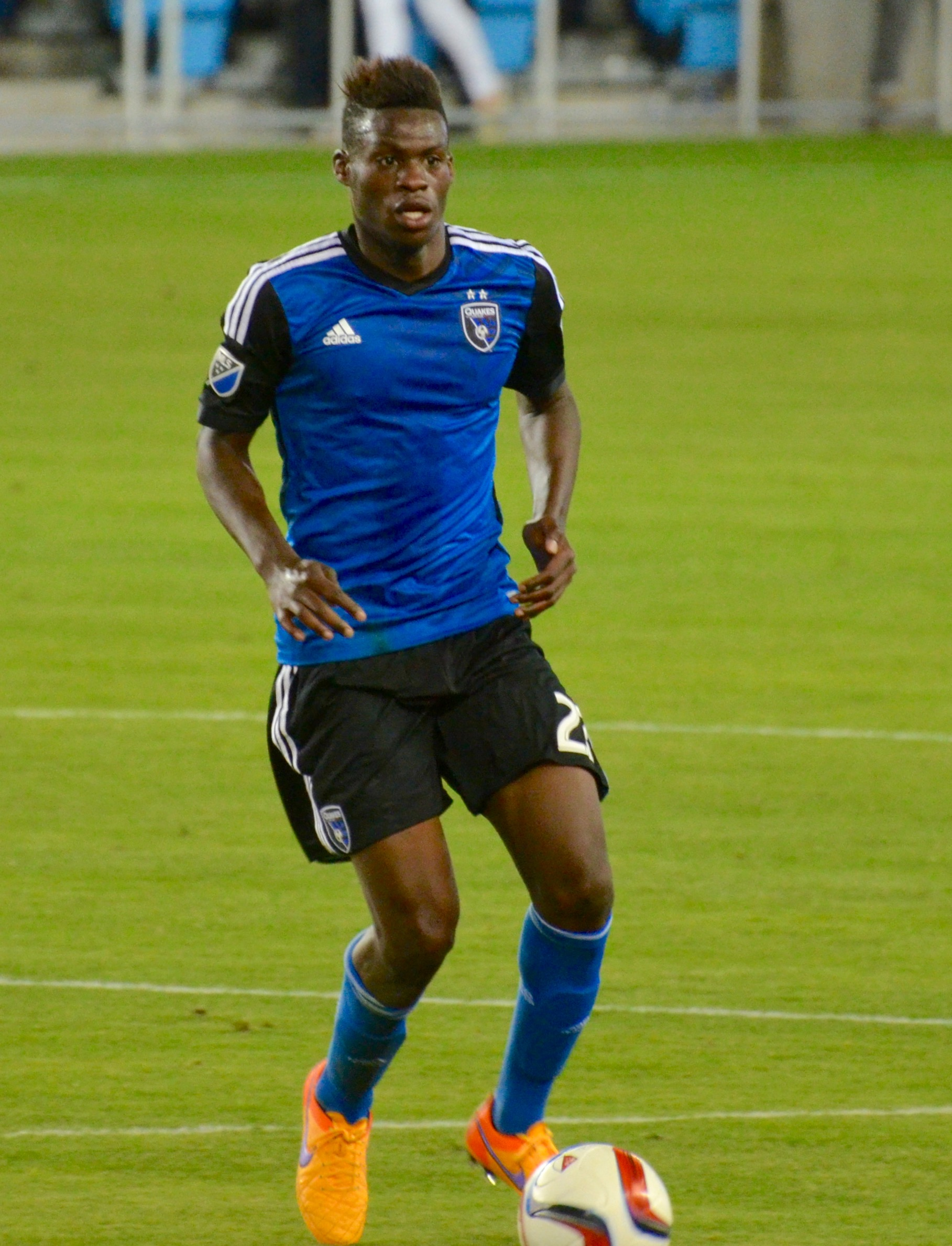 Fatai Alashe playing for the San Jose Earthquakes vs the Vancouver Whitecaps at Avaya Stadium on 11 April 2015